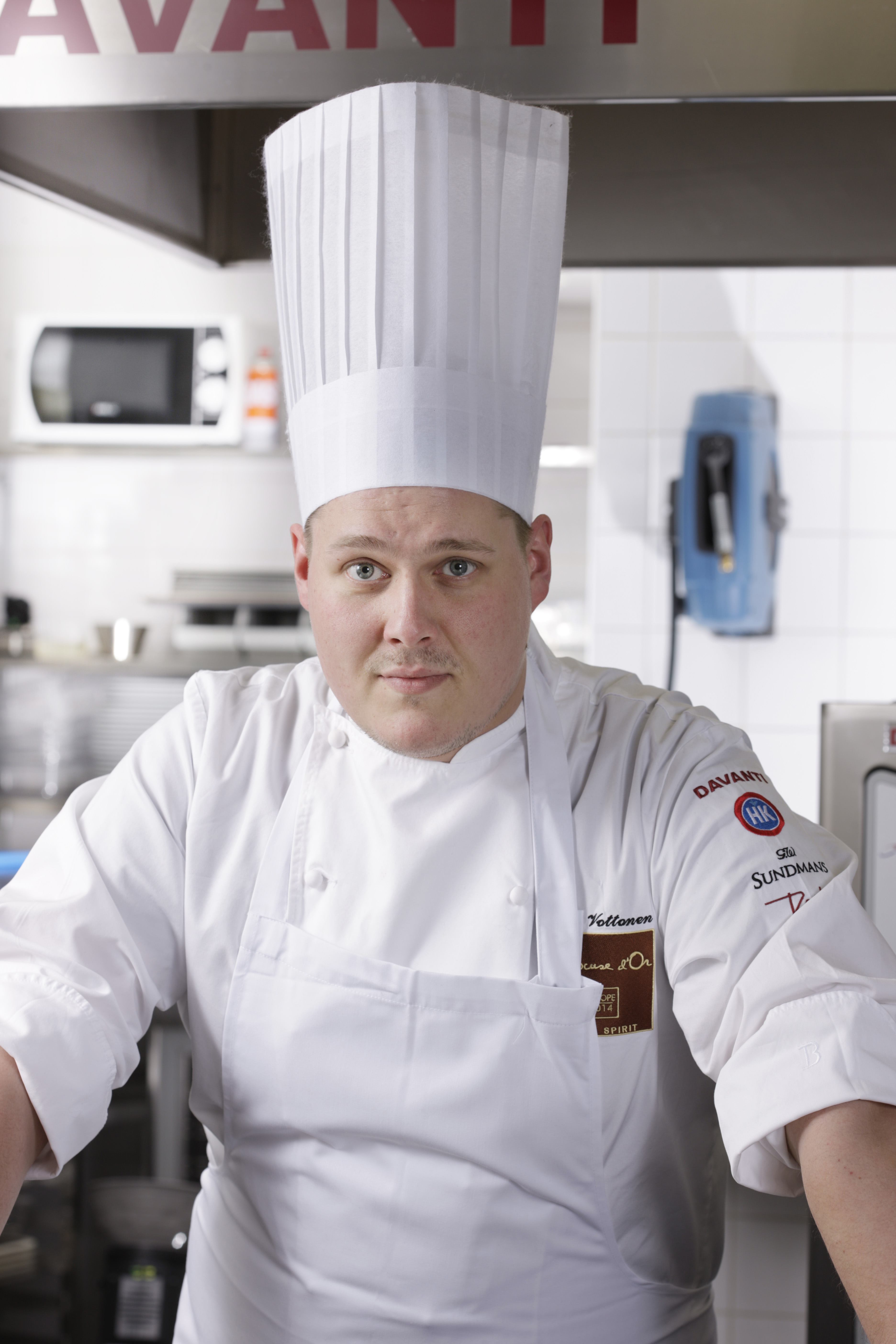 Chef Eero Vottonen from Finland.